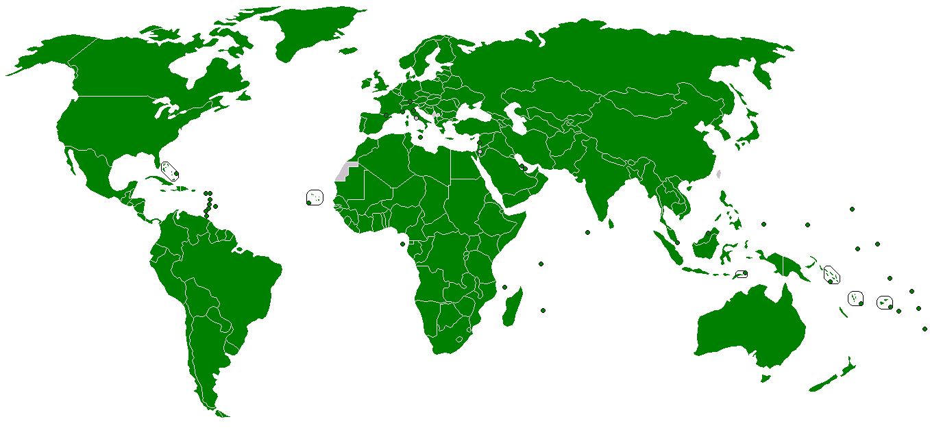 parties to the convention